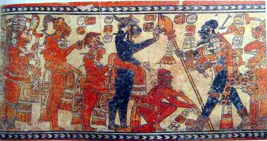 Maya ceramics scan from Miller, Mary Ellen, Maya Art and Architecture. Thames and hudson, New York, 1999 user:JamesDay says on possible copyright infringements that "these are not copyrightable in US law because they are accurate mechanical reproductions of works which are out of copyright, with no creative lighting or other creative input."